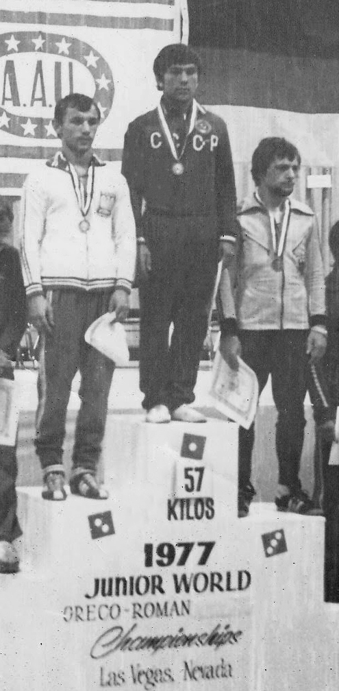 Left-right: Piotr Michalik, Viktor Pivovarov, Pasquale Passarelli at the 1977 Junior World Greco-Roman Wrestling Championships in Las Vegas